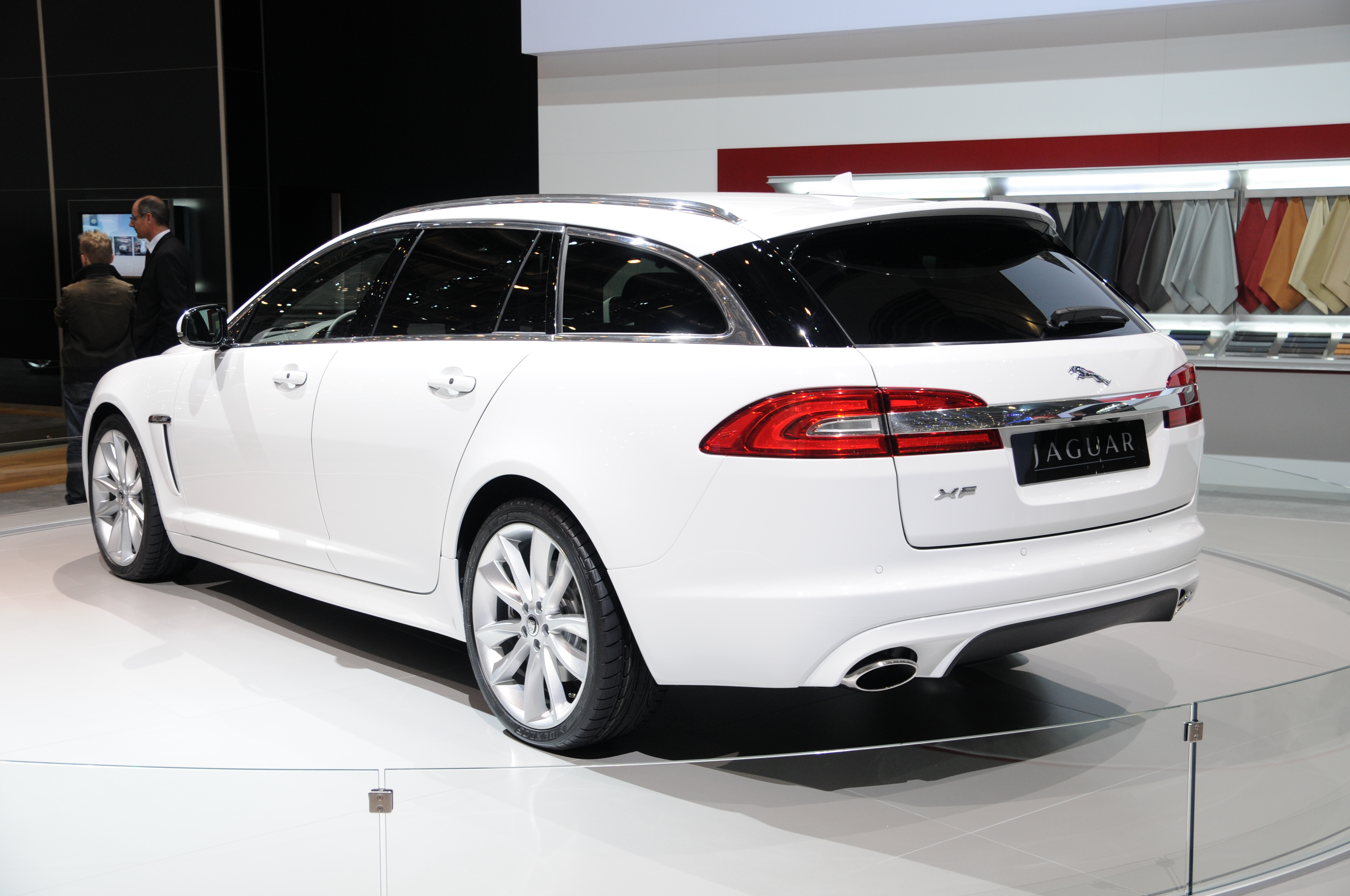 Geneva Motor Show 2012 (photos taken on the second press day)